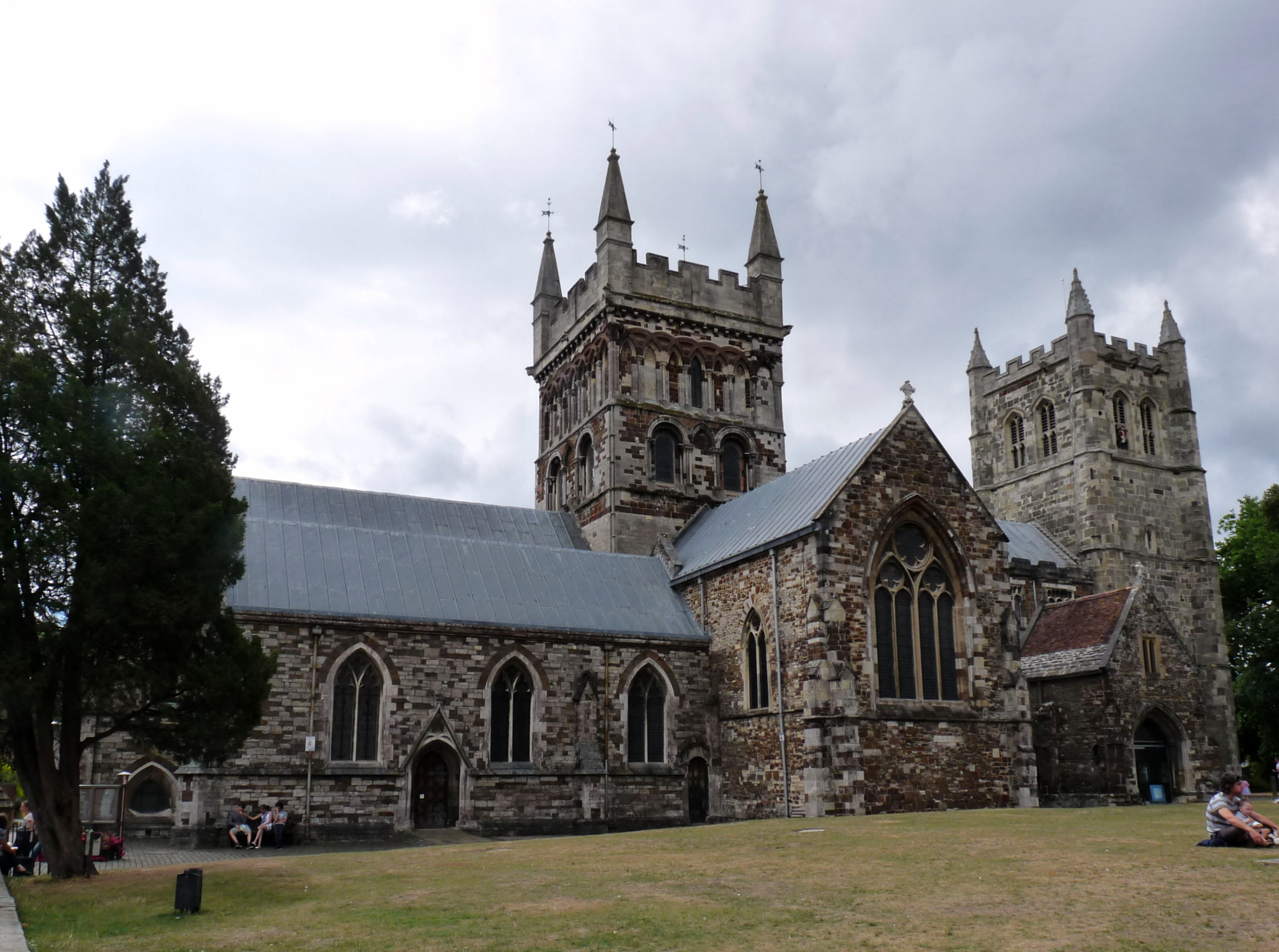 Minster of St. Cuthburga, Wimborne Minster